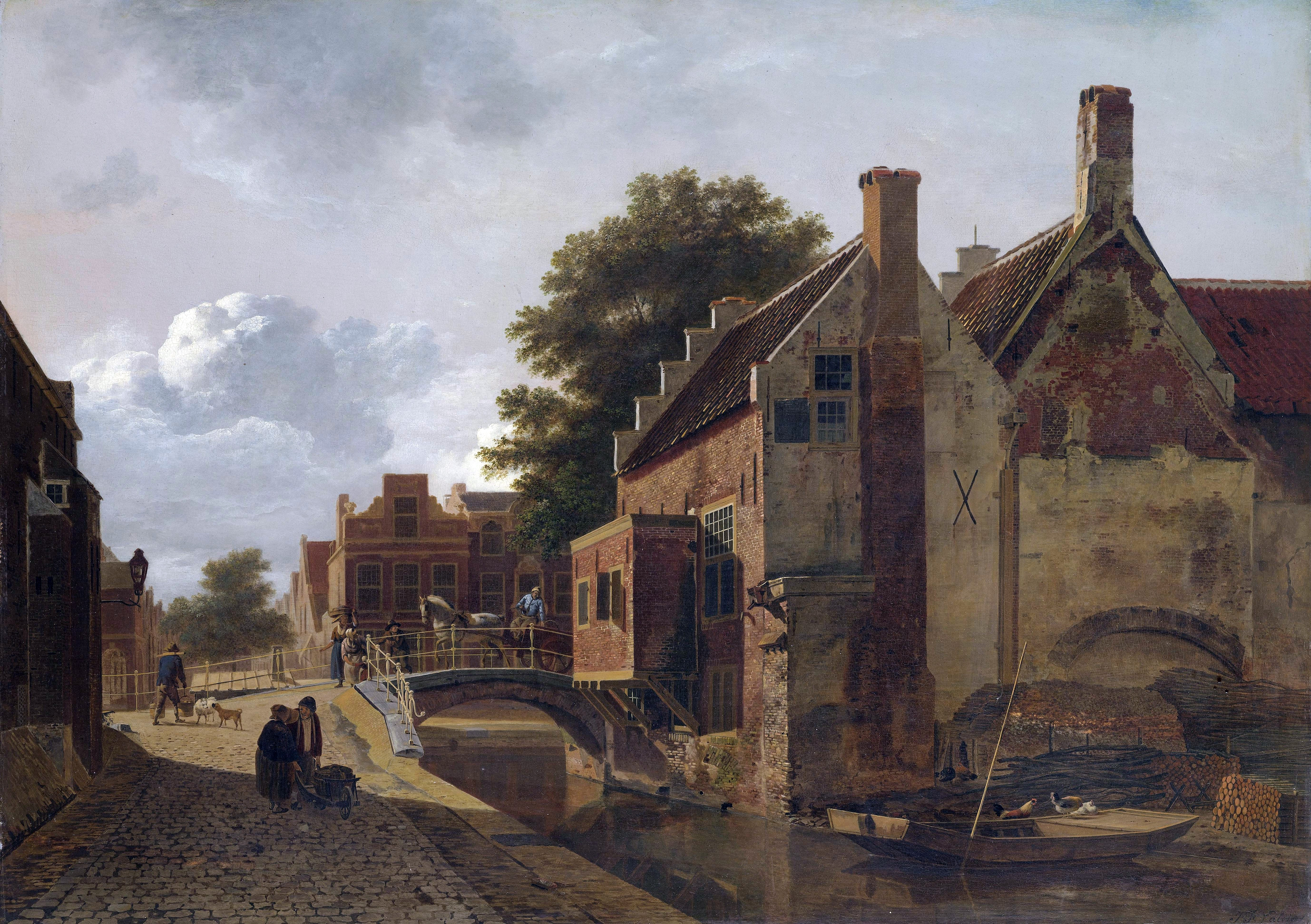 Cityscape with the Kalvermarkt (veal market) in The Hague. Houses along a canal, to the right a barge and a couple of chickens. On the left side is the market which leads to a bridge on which a horse and carriage passes by. At the quay a man with a wheelbarrow and a man with a yoke on the shoulders. Signature, bottom right: 'J. F. Valois f. " Oil paint on panel* h. 45 cm × w. 61.5 cm Acquired in 1808 by the 'Nationaale Konst Gallery (now called Rijksmuseum Amsterdam)